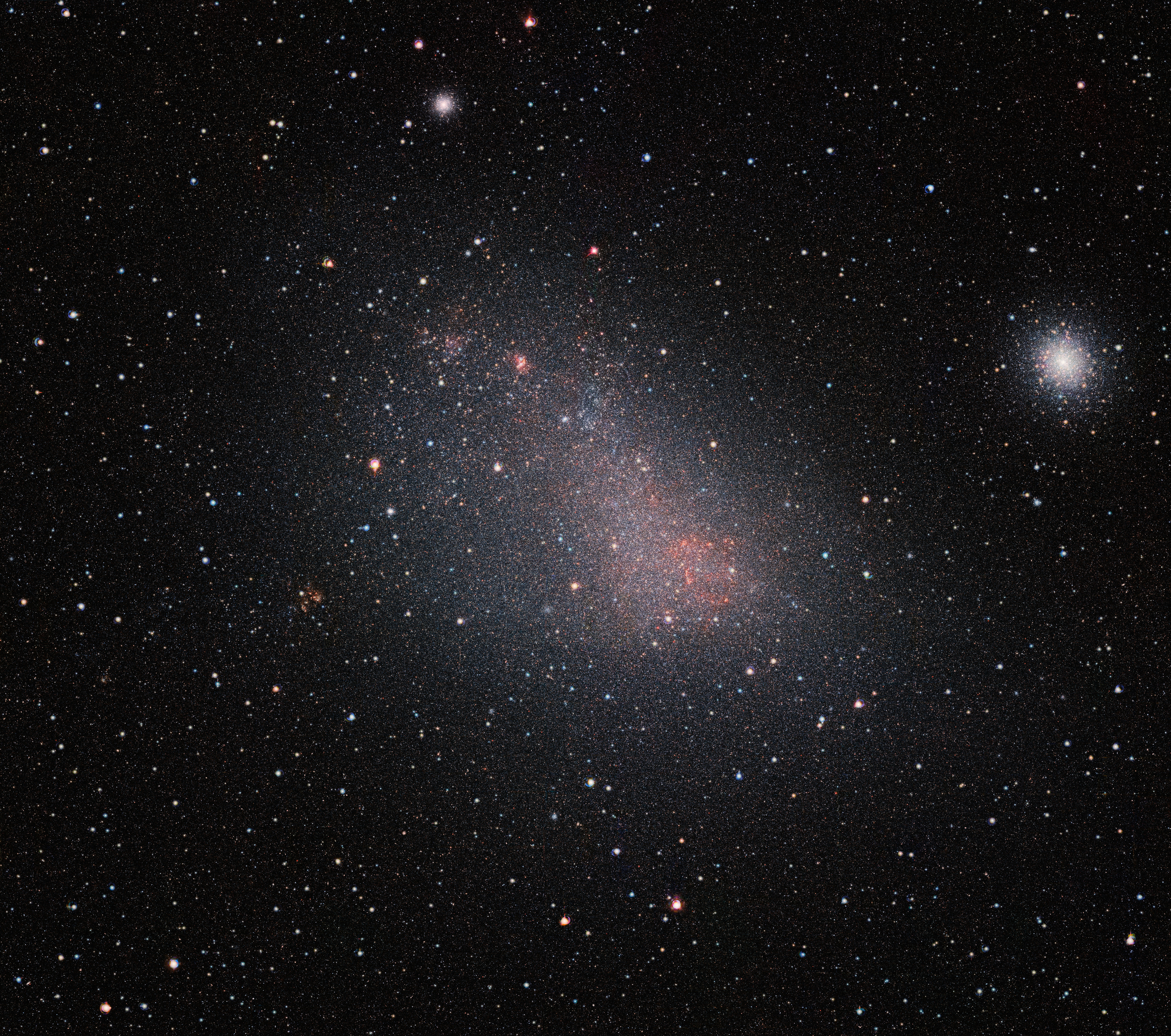 The Small Magellanic Cloud (SMC) galaxy is a striking feature of the southern sky even to the unaided eye. But visible-light telescopes cannot get a really clear view of what is in the galaxy because of obscuring clouds of interstellar dust. VISTA’s infrared capabilities have now allowed astronomers to see the myriad of stars in this neighbouring galaxy much more clearly than ever before. The result is this record-breaking image — the biggest infrared image ever taken of the Small Magellanic Cloud — with the whole frame filled with millions of stars. As well as the SMC itself this very wide-field image reveals many background galaxies and several star clusters, including the very bright 47 Tucanae globular cluster at the right of the picture.